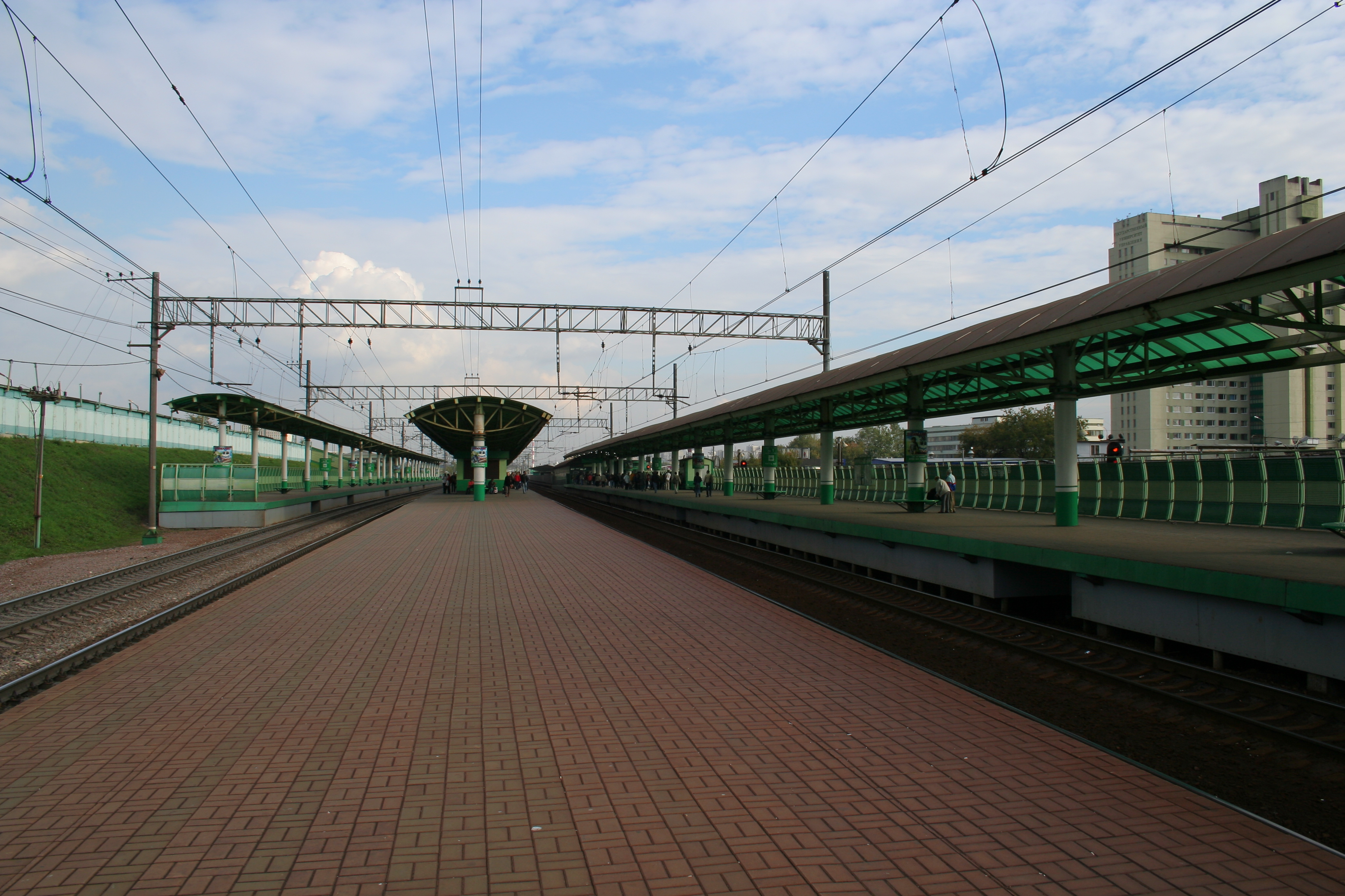 Train stop Vykhino in Moscow